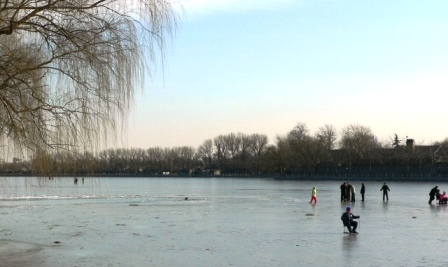 View on the Back Lake at Shichahai, Beijing, China